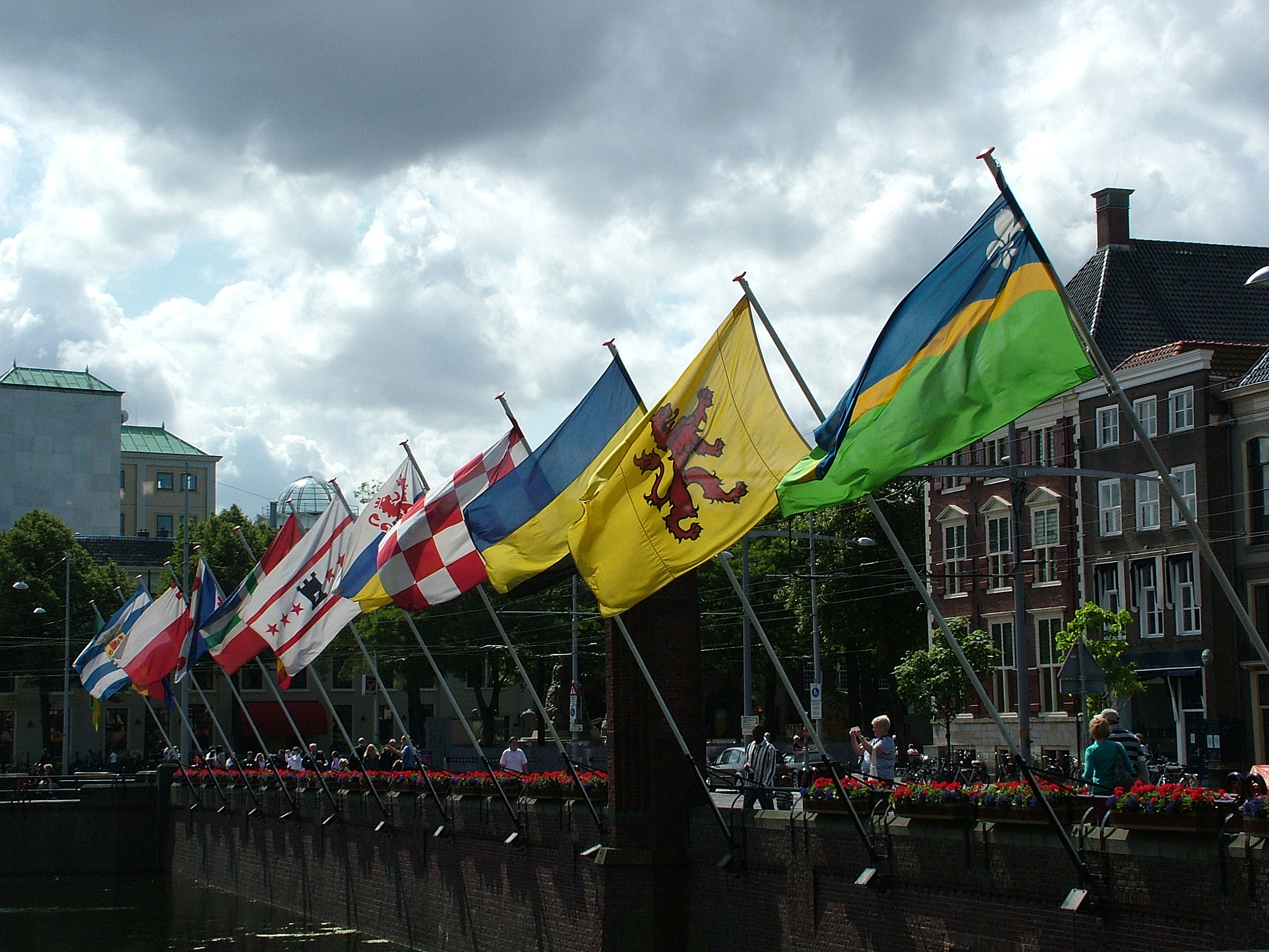 Flags of the Dutch Provinces, The Hague, at the Binnenhof.